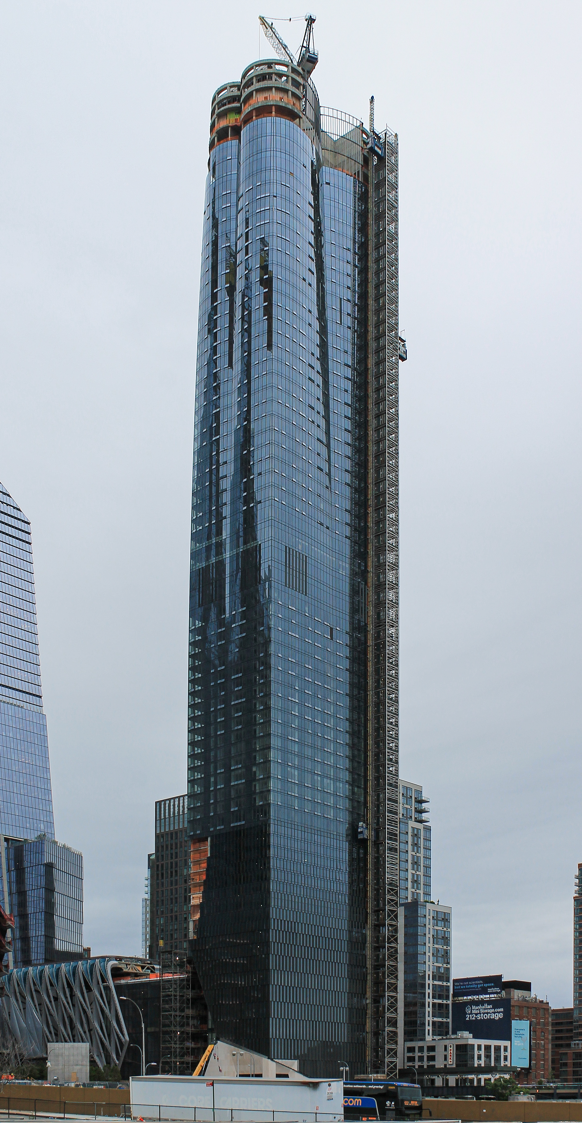 15 Hudson Yards under construction, 27 June 2018.